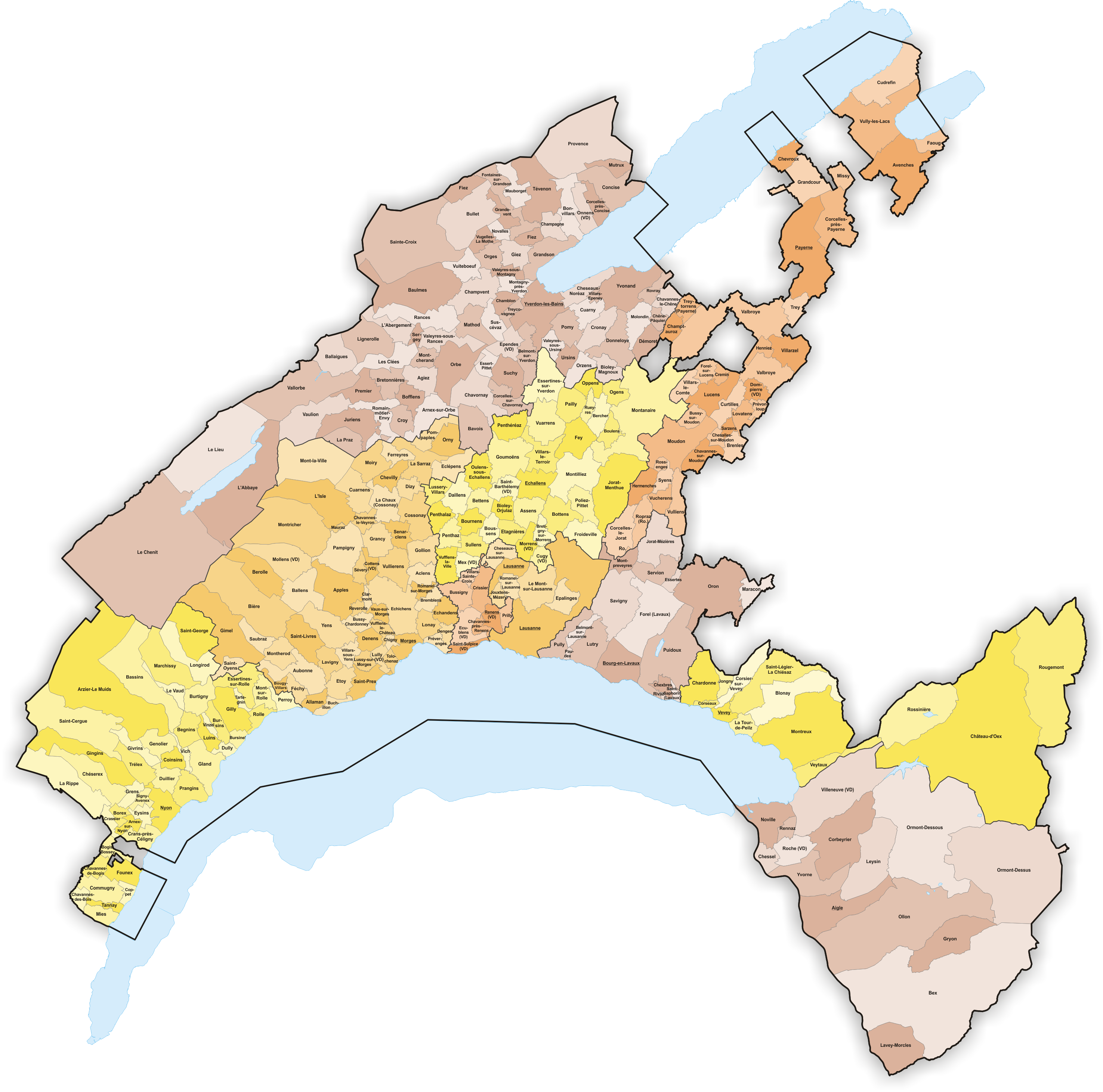 Municipalities in Canton Waadt